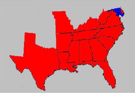 Segregation in Southern U.S.